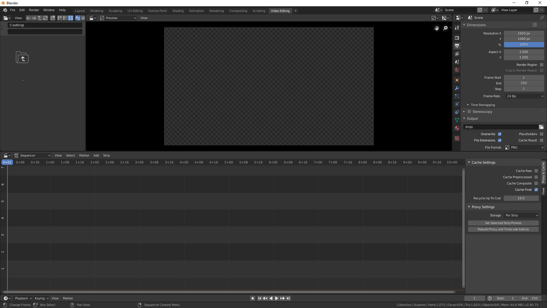 The default video editing workspace in blender 2.8